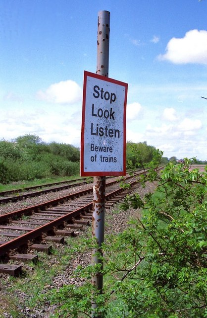 Beware of Trains Sign near Saughall Warning sign next to the pedestrian crossing on the disused Mickle Trafford to Shotton railway line. The rails have been lifted since this photo was taken and the route turned into the Millennium Cycleway.